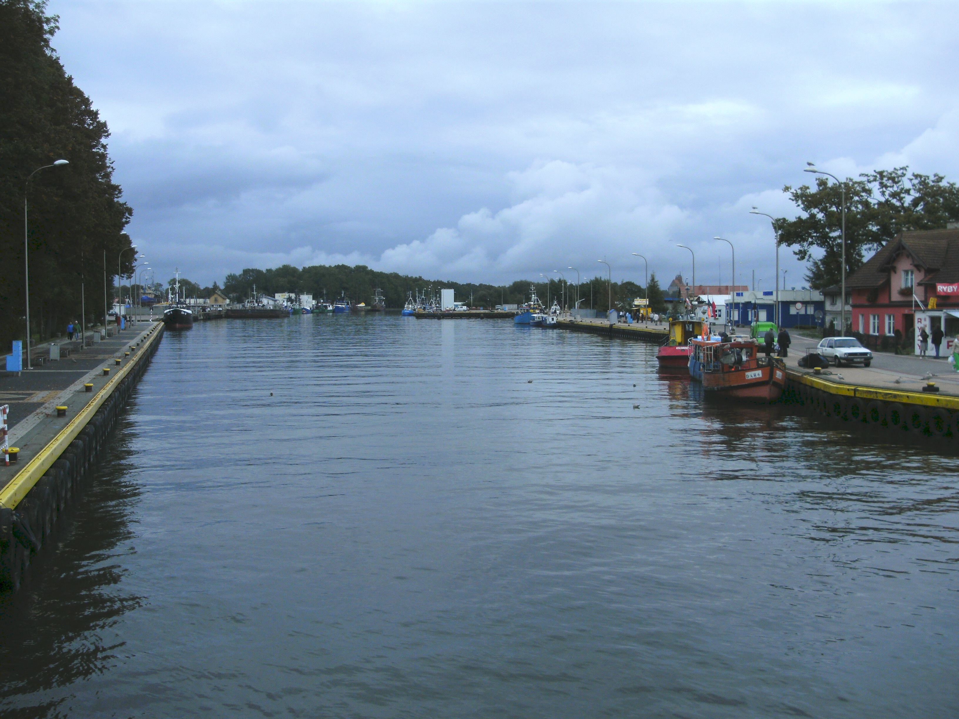 Port of Darłowo